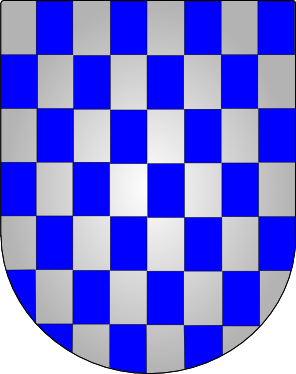 Arms of the Marquis and Dukes of Abrantes - Portugal Made by JSobral